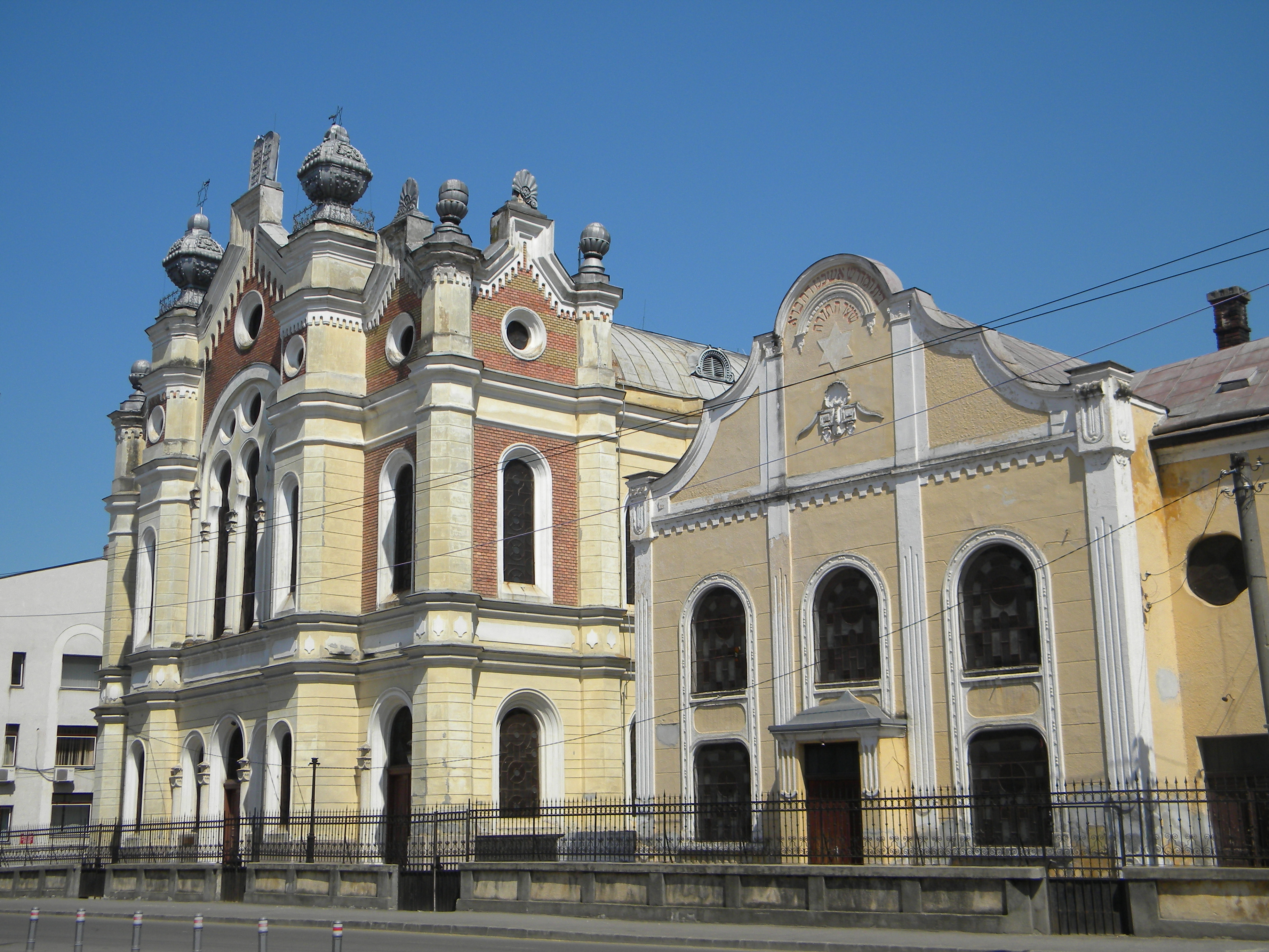 Orthodox sinagogues in the Decebal street (former Várdomb street) - Satu Mare / Szatmárnémeti / Sathmar / סאטמאר